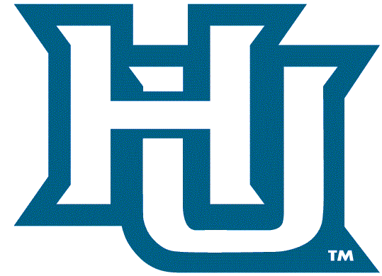 Logo for athletics at Hampton University.